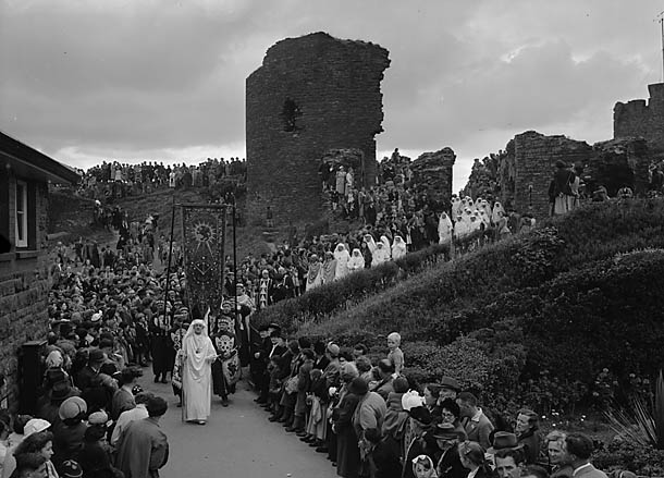 Announcing the 1952 National Eisteddfod of Wales in Aberystwyth.